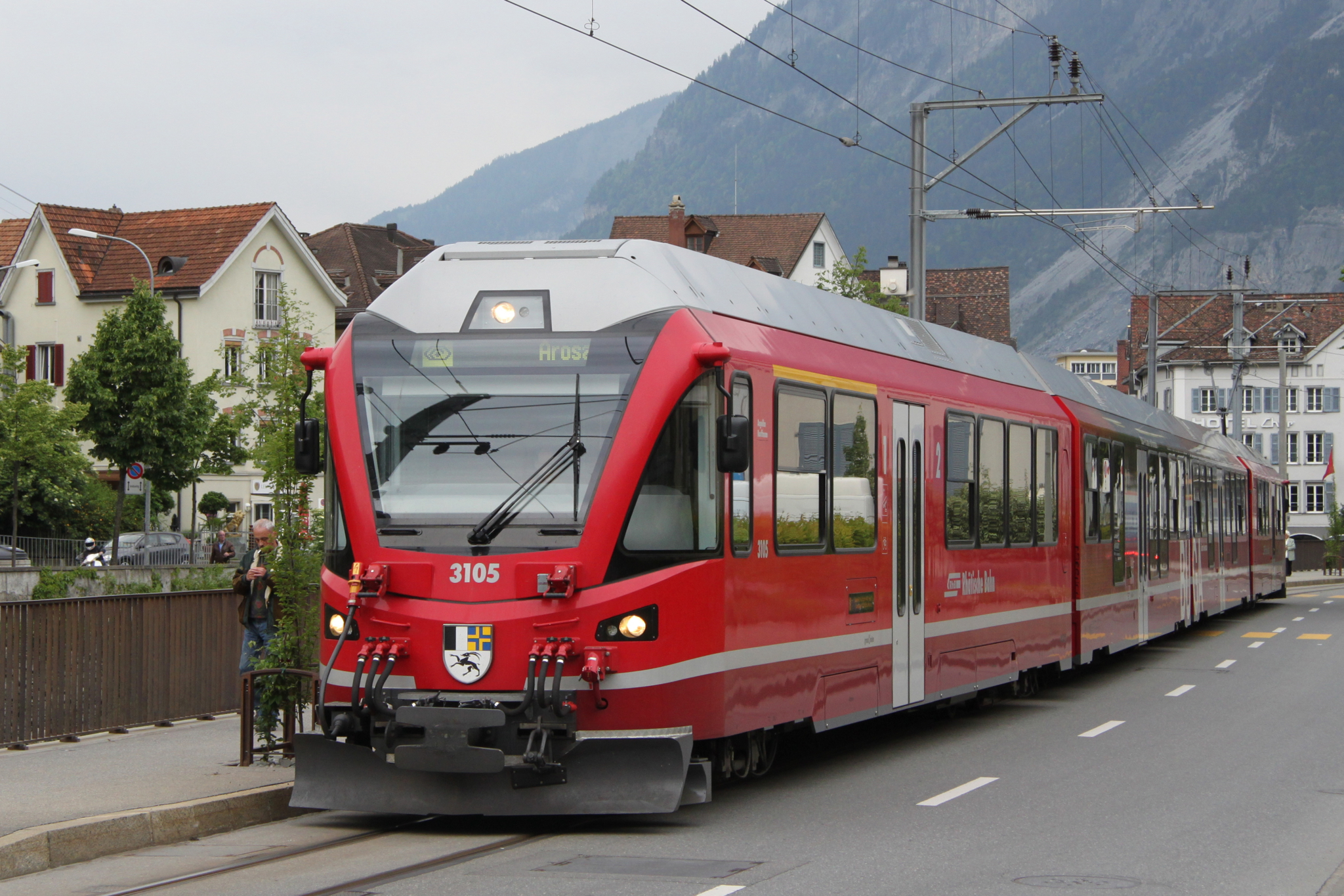 RhB ABe 4/16 3105 calling at Chur Stadt train station while travelling from Chur to Arosa as R 1461.